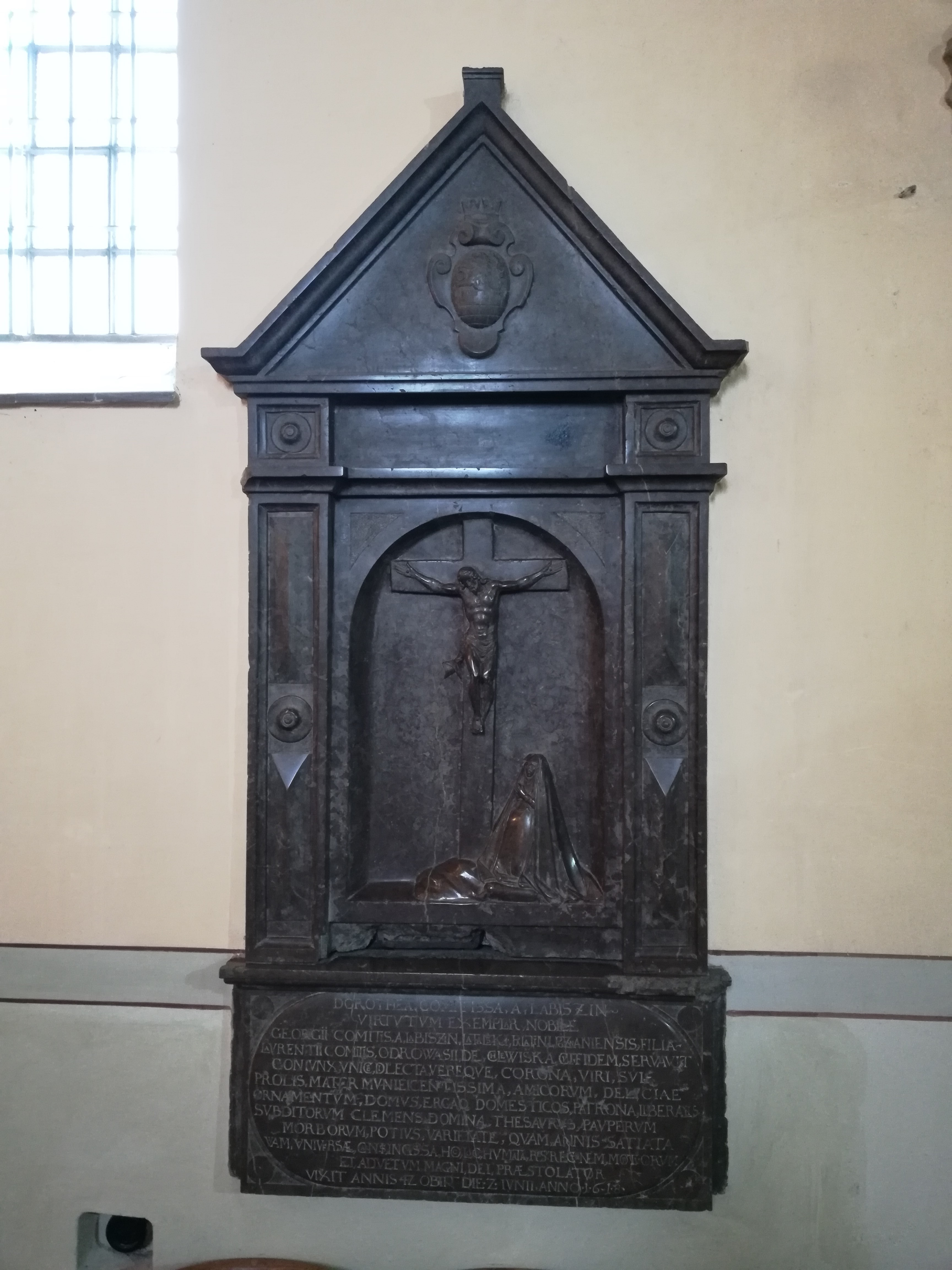 Church of St. Stanisława w Chlewiski - an epitaph of Dorota from Łabiszyn Latalska from 1618 in the presbytery.